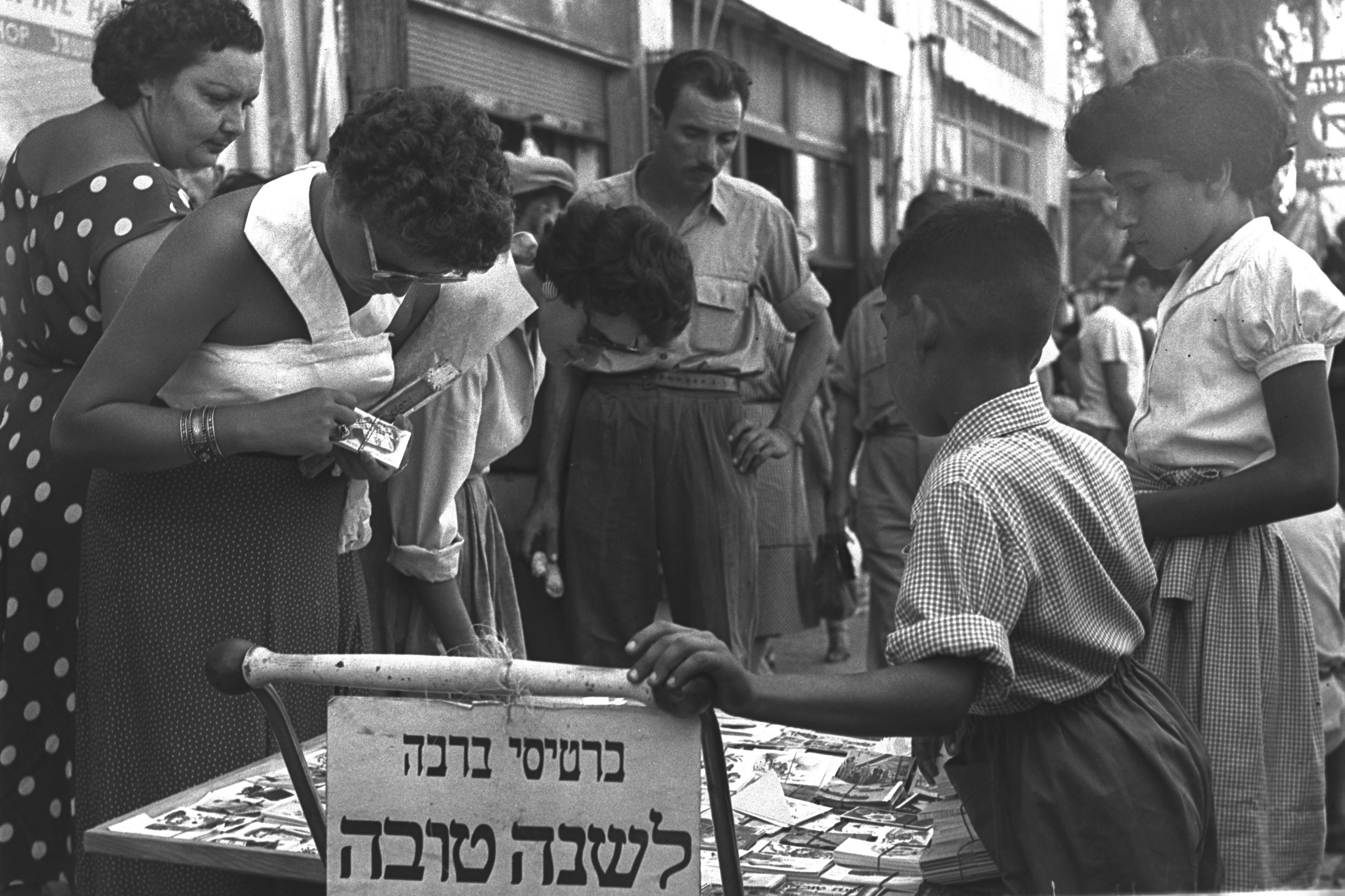 PEOPLE BUYING "ROSH HASHANA" GREETING CARDS FROM A STREET VENDOR IN TEL AVIV.